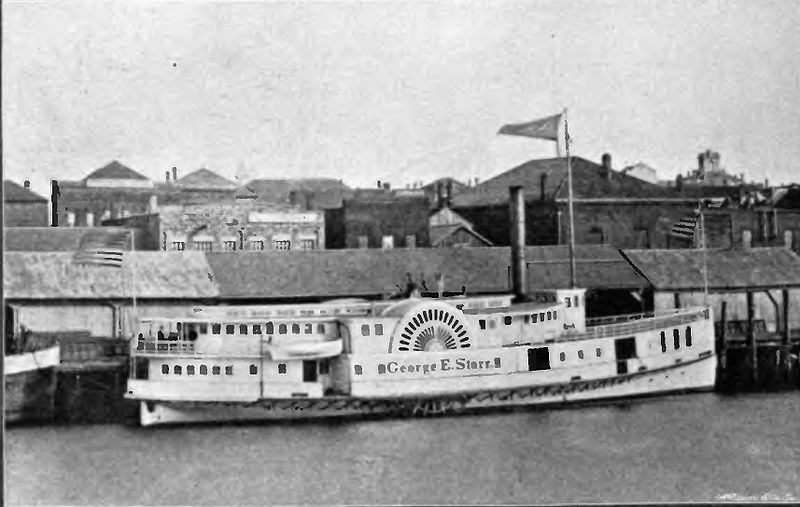 George E. Starr, sidewheel steamboat, built 1879